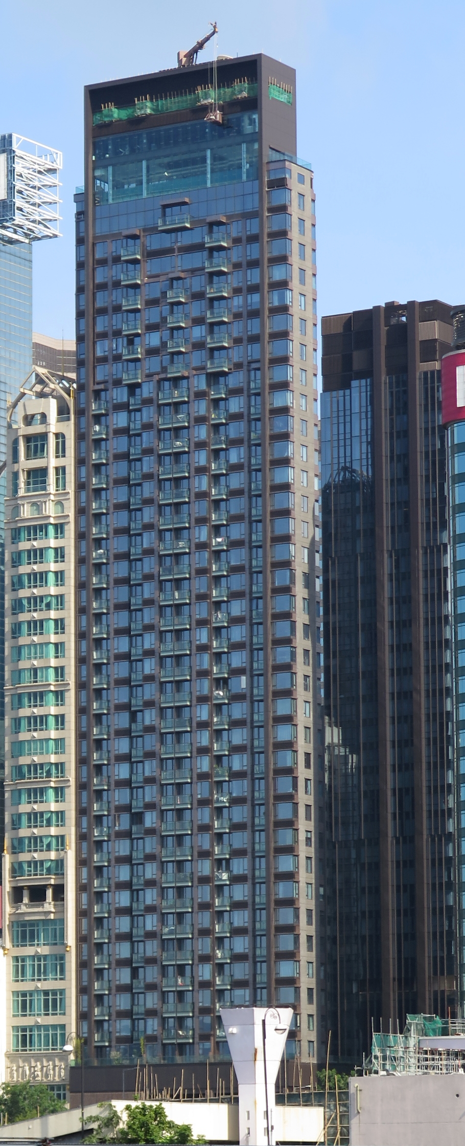 The Gloucester